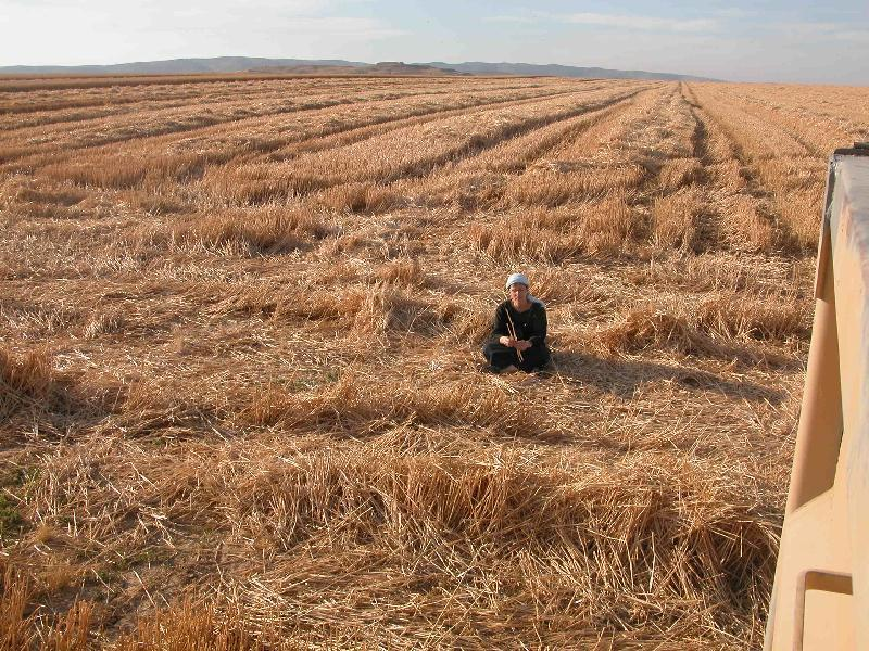 Grain field a gadash Maon